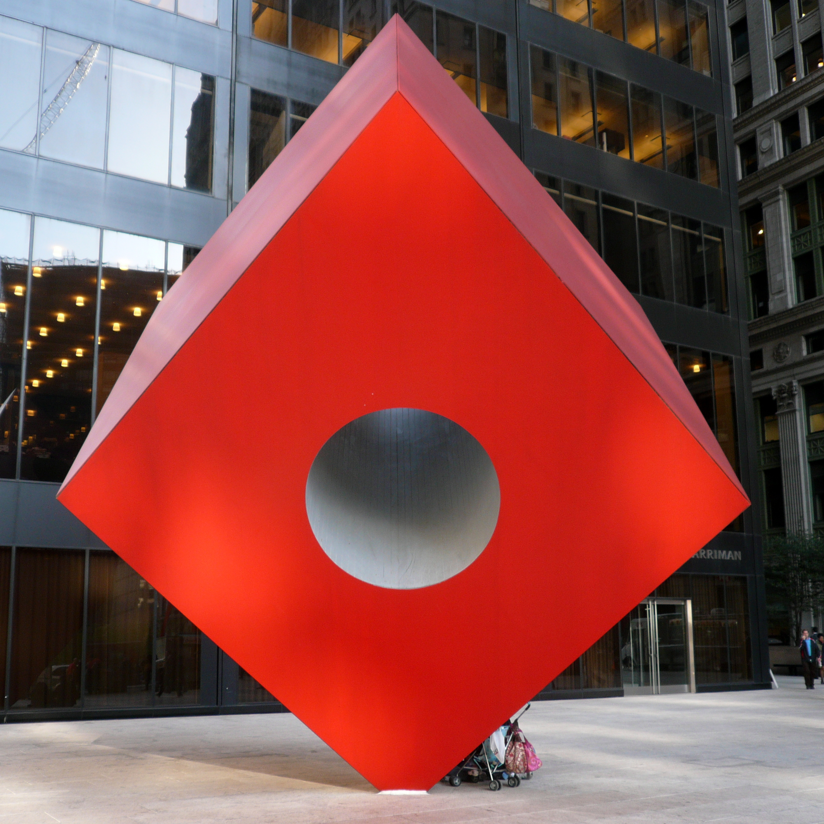 Red Cube, Manhattan, New York